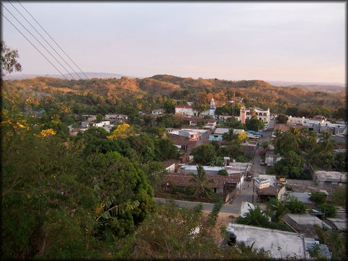 Panoramic view from the cross of the hill known as Garcia Othón